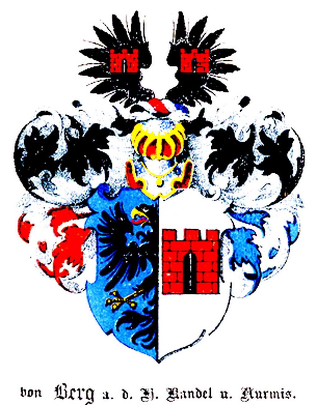 von Berg a. d. H. Kandel, Karmel und Nurmis CoA